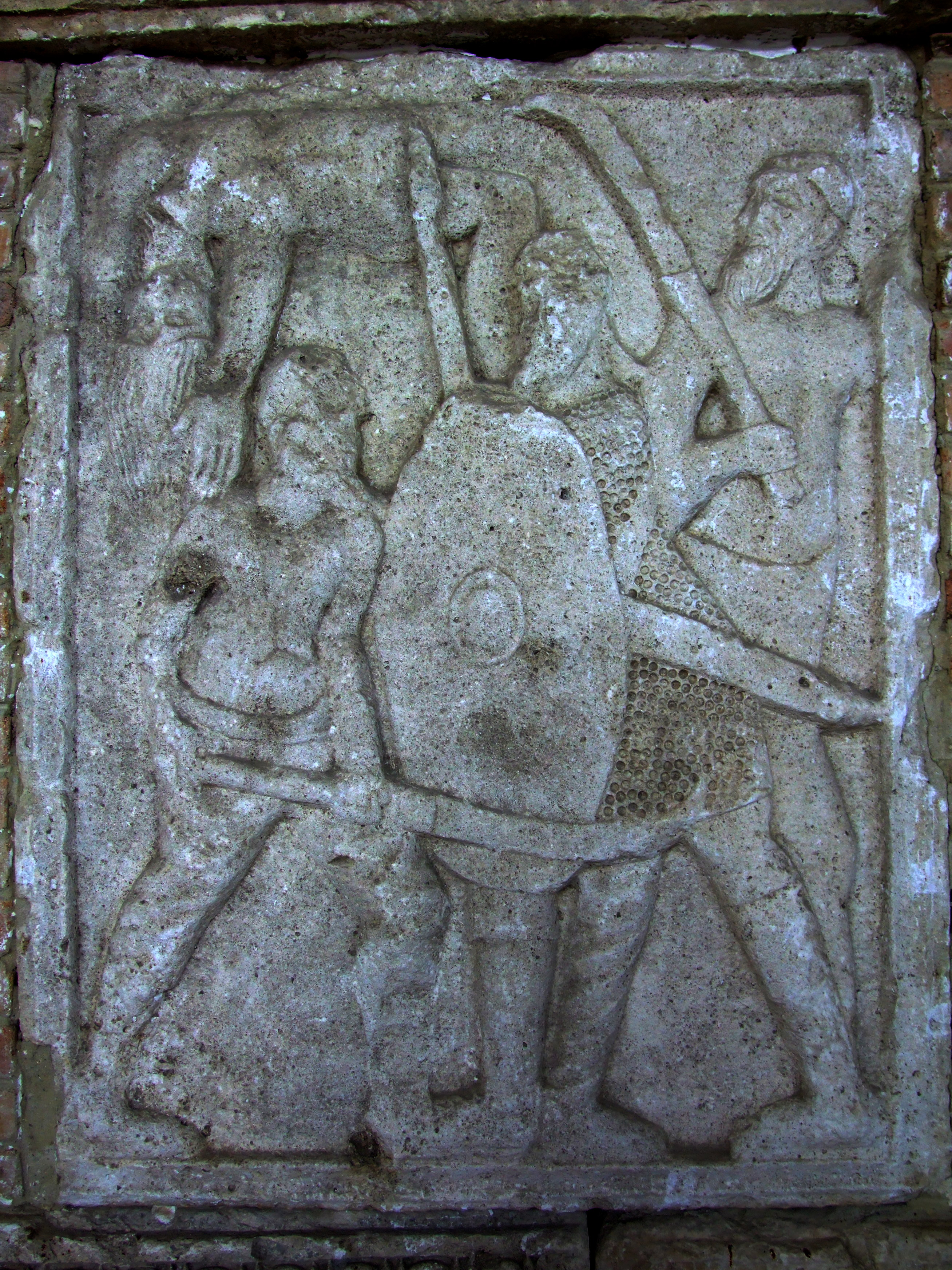 Tropeum Traiani Metope